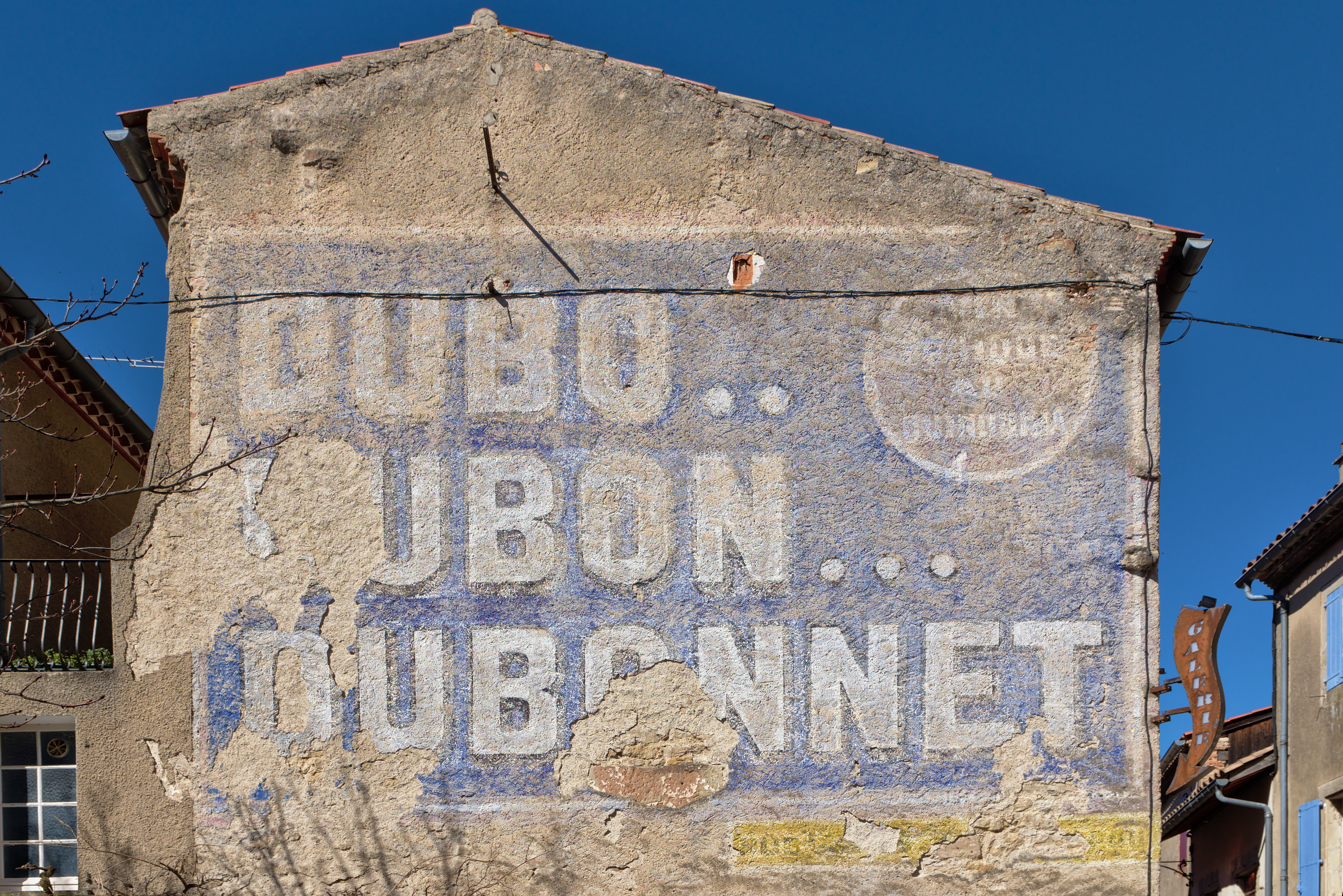 Wall advertisement for Dubonnet drink in Lautrec (Tarn, France)